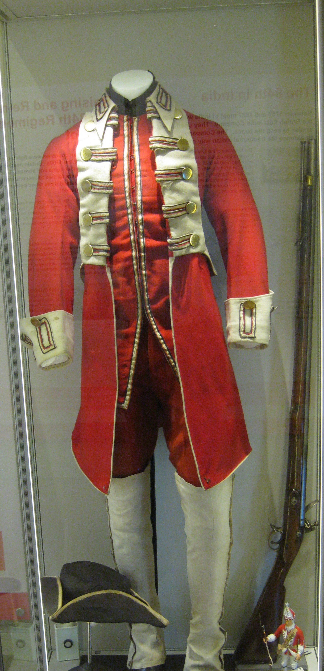 Display of repiica soldier's uniform for the 65th Regiment of Foot, Red coat and breeches, white leggings, black tricorn hat, A Brown Bess gun is also in the cabinet. In the York and Lancaster Regimental Museum, within Clifton Park Museum